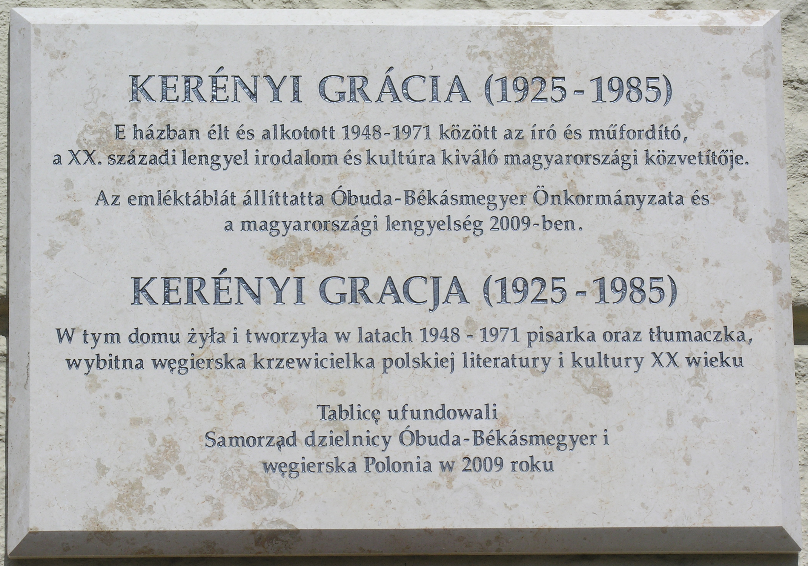 Commemorative plaque of Grácia Kerényi in Budapest District III, Fő Square No 3